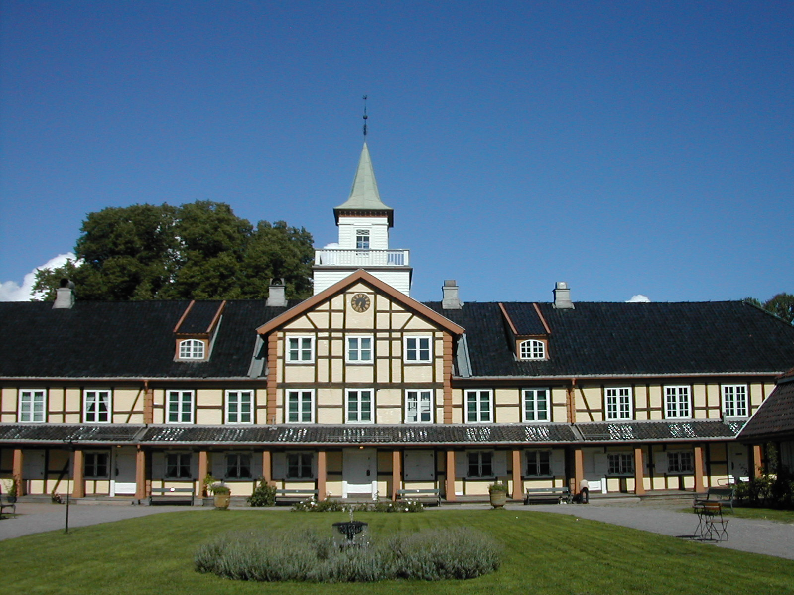 Frogner Hovedgård, Frogner, Oslo. Location of the Oslo Museum.